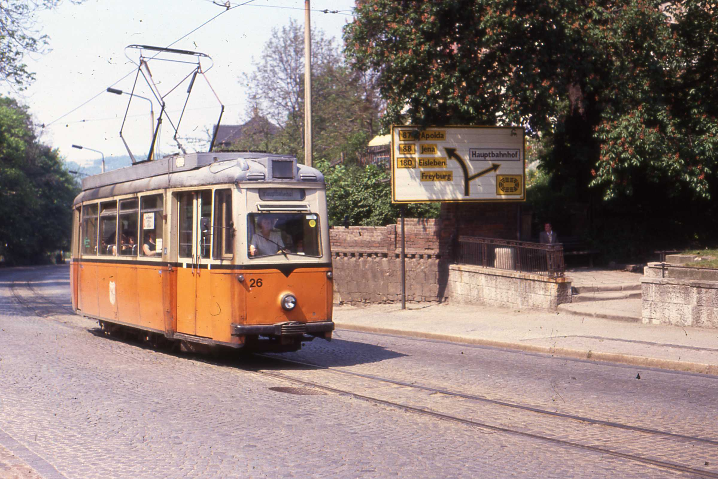 I think the tram is operating anticlockwise here, the opposite direction from the previous year. LOWA car no 26 has climbed the steep hill from the Hauptbahnhof on the cental running 1000mm gauge track among the cobbles. This tram survived until the end of the system before abandonment and eventual resurrection initially as a museum operation and the daily operation of today, albeit not utilising this part of the system any more.